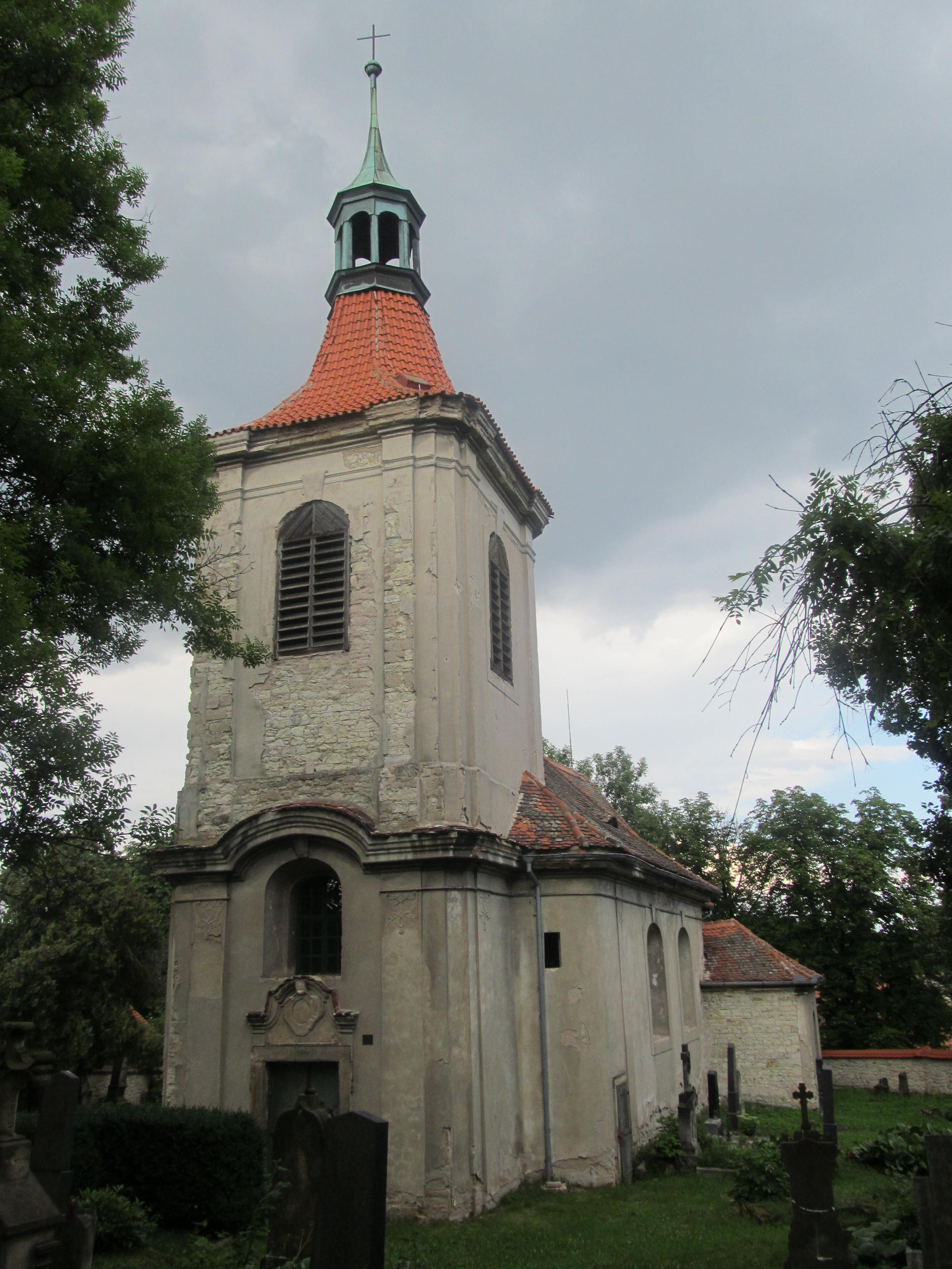 Church of St. Gallus in Brloh